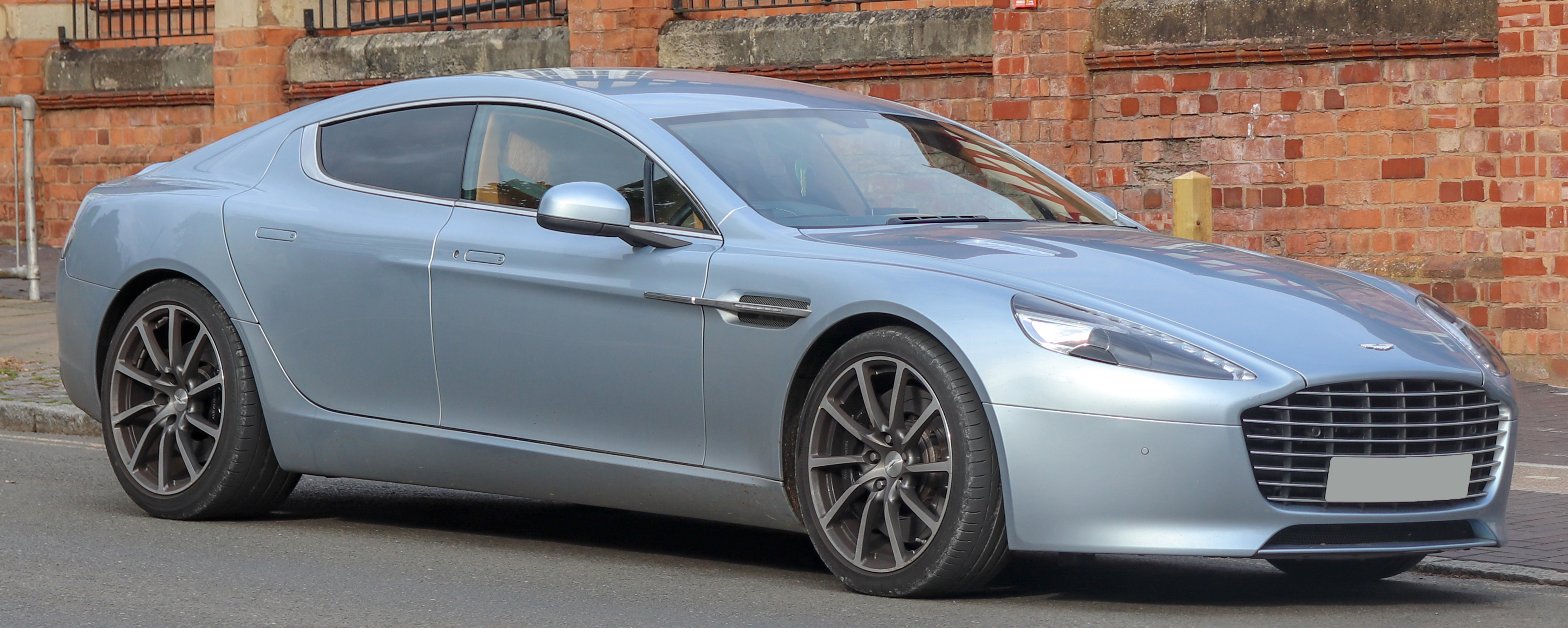 2016 Aston Martin Rapide S V12 Automatic 6.0 Front Taken in Warwick